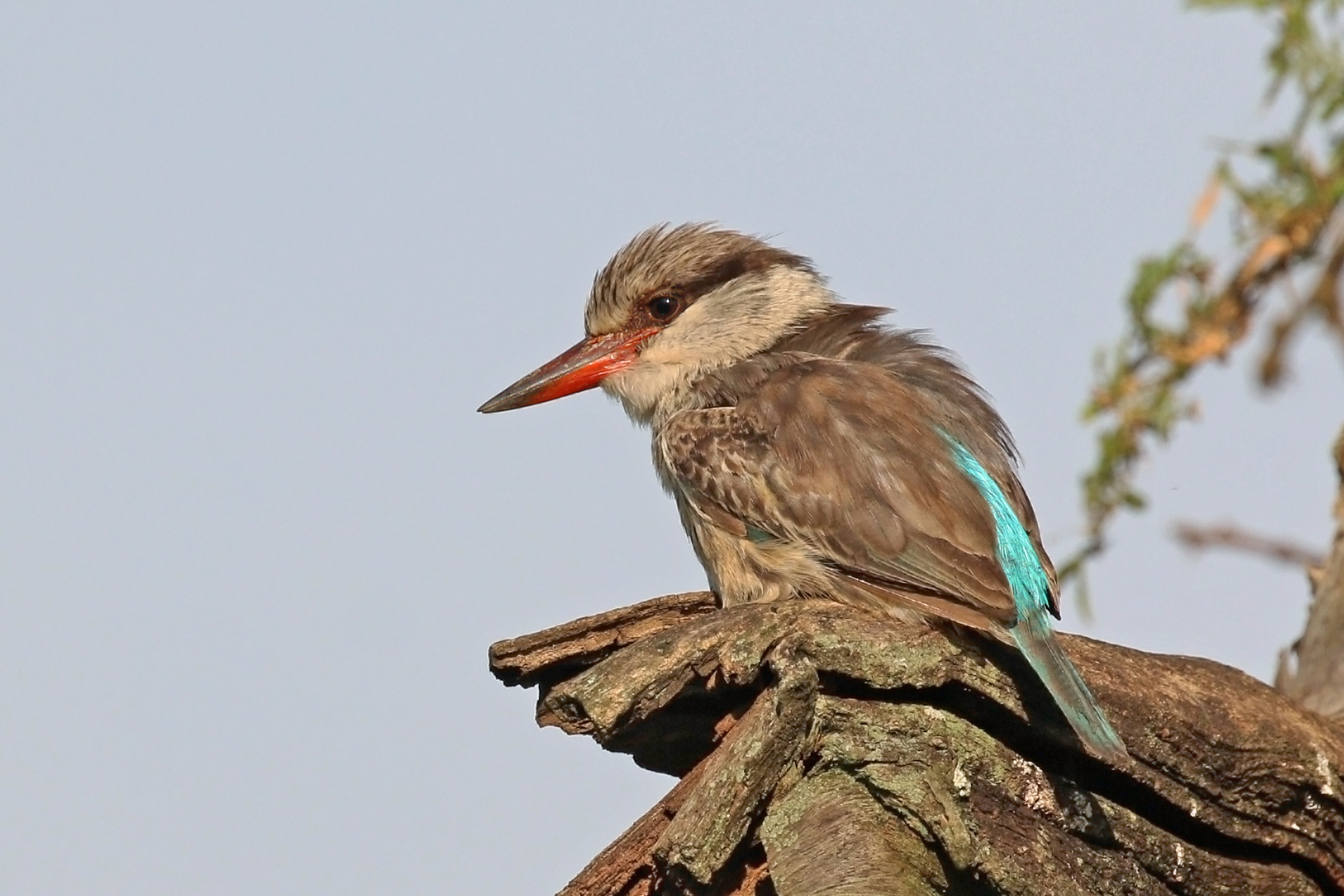 Striped kingfisher (Halcyon chelicuti chelicuti) juvenile, Semliki Wildlife Reserve, Uganda